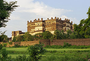 This image was copied from fr. The original description was: palais Orchhâ